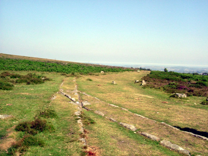 Granite railway on Hay Tor, Dartmoor, Devon. Mid afternoon 15 July 2005 (or a few days before).